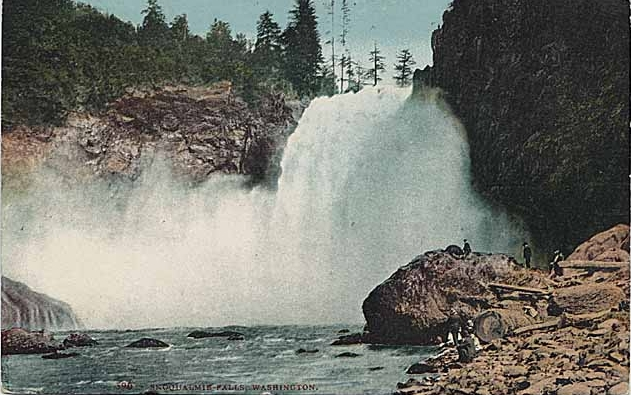 Original title: "Snoqualmie Falls, near Snoqualmie, ca. 1910"